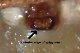 epigynum of female Rugathodes sexpunctatus